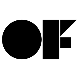 openframeworks official logo